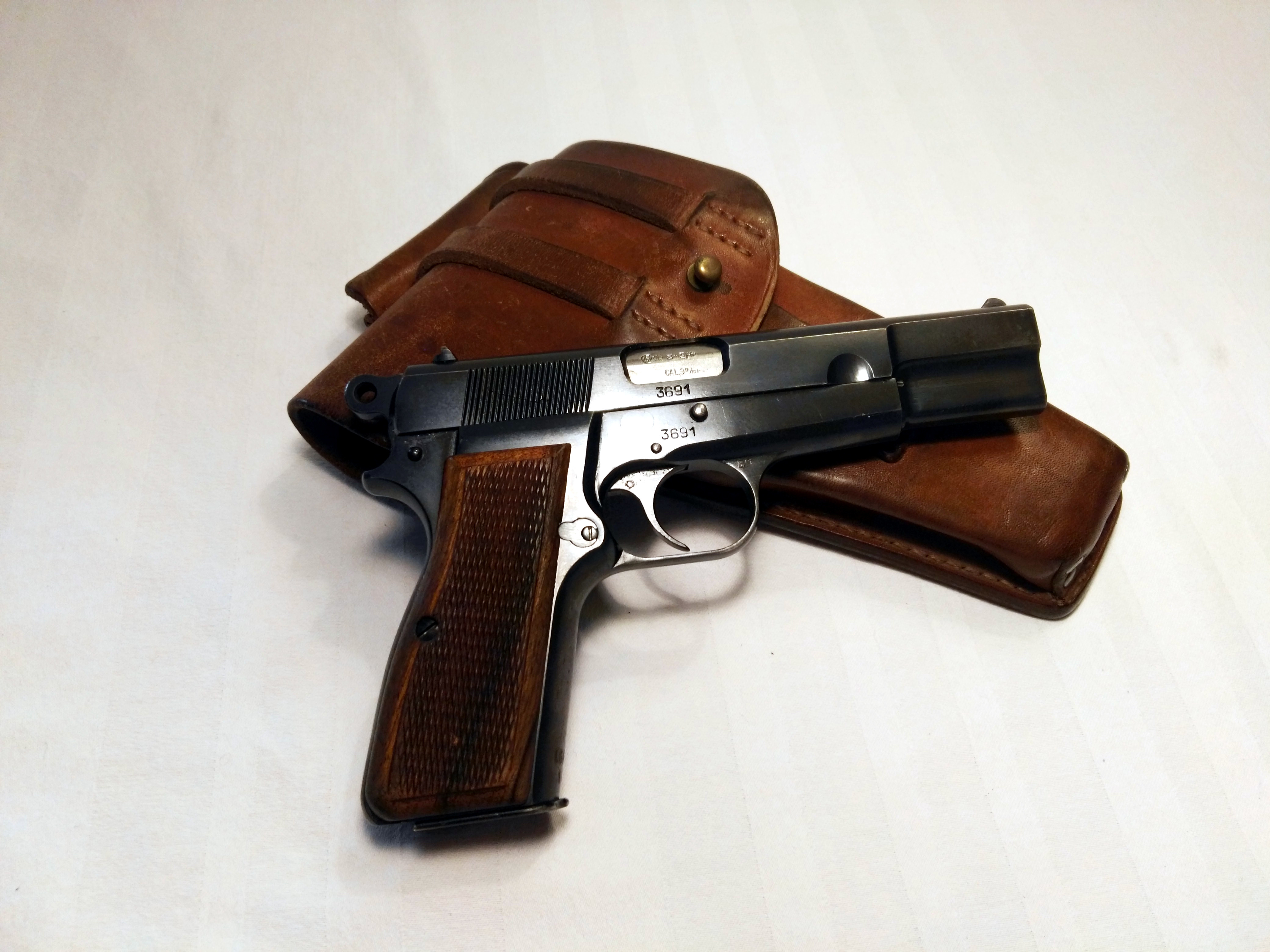 FN High Power of Austrian Gendarmerie